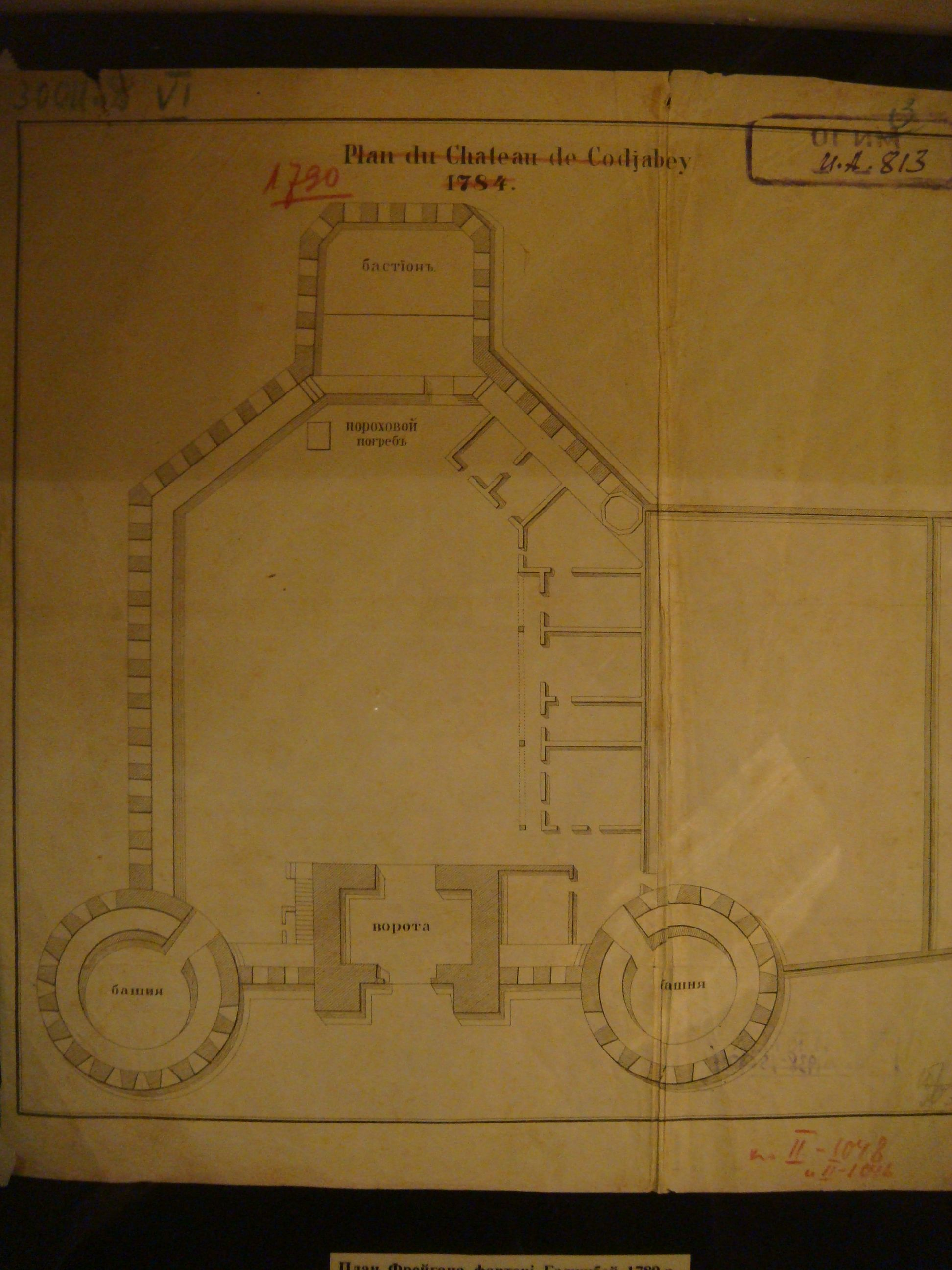 Plan of Cadjabey fortress in 1790